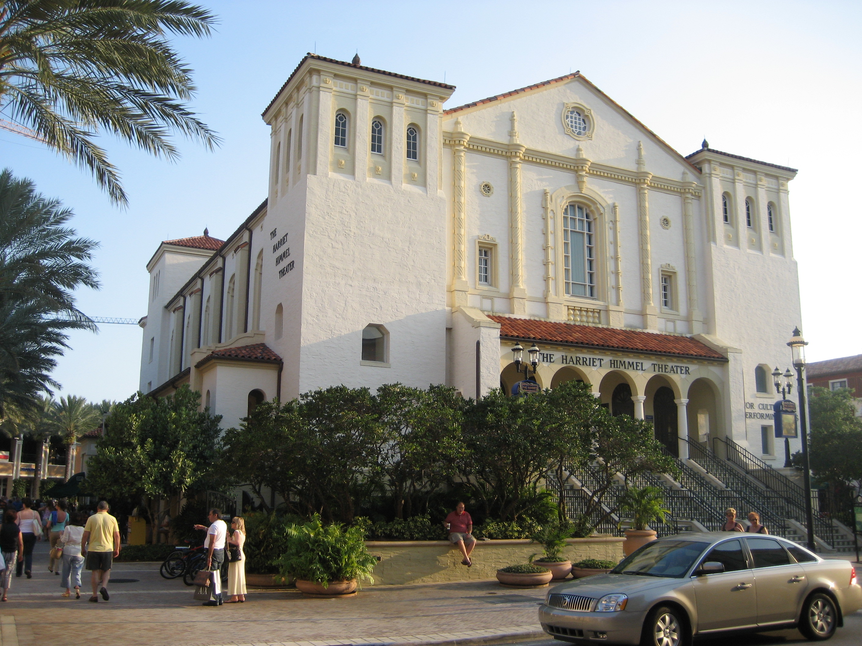 A photo of the Harriet Himmel Theater in CityPlace, located in Downtown West Palm Beach.